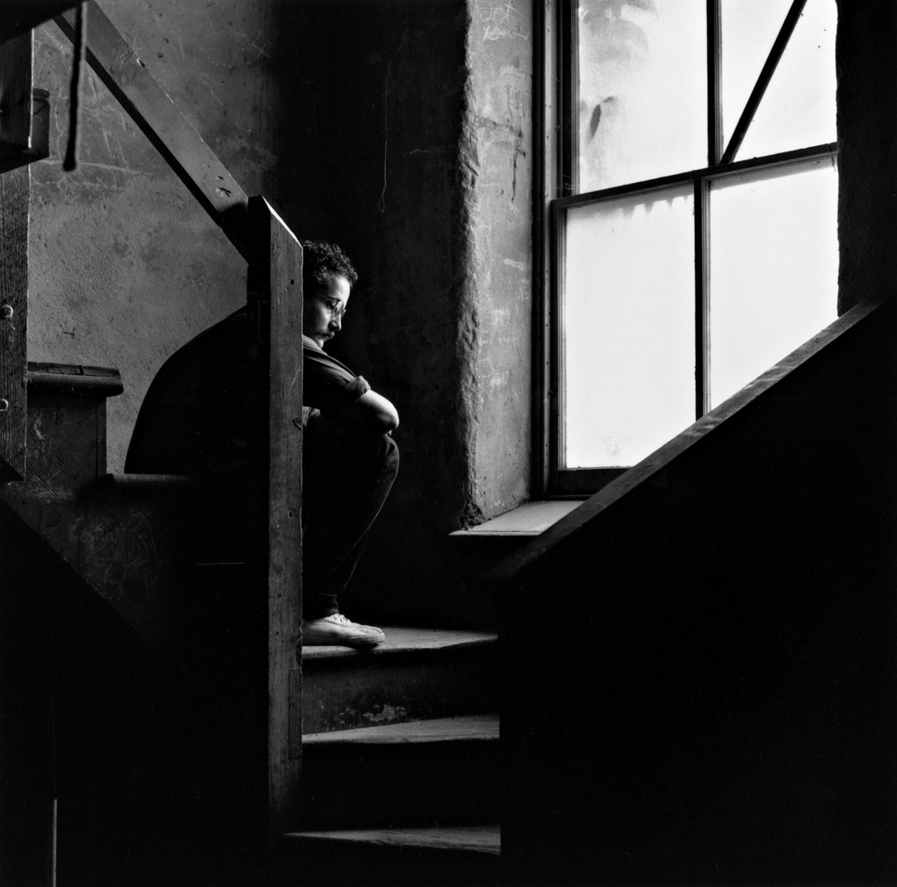 Portrait of Douglas Darden; photo taken by Bob Curtis